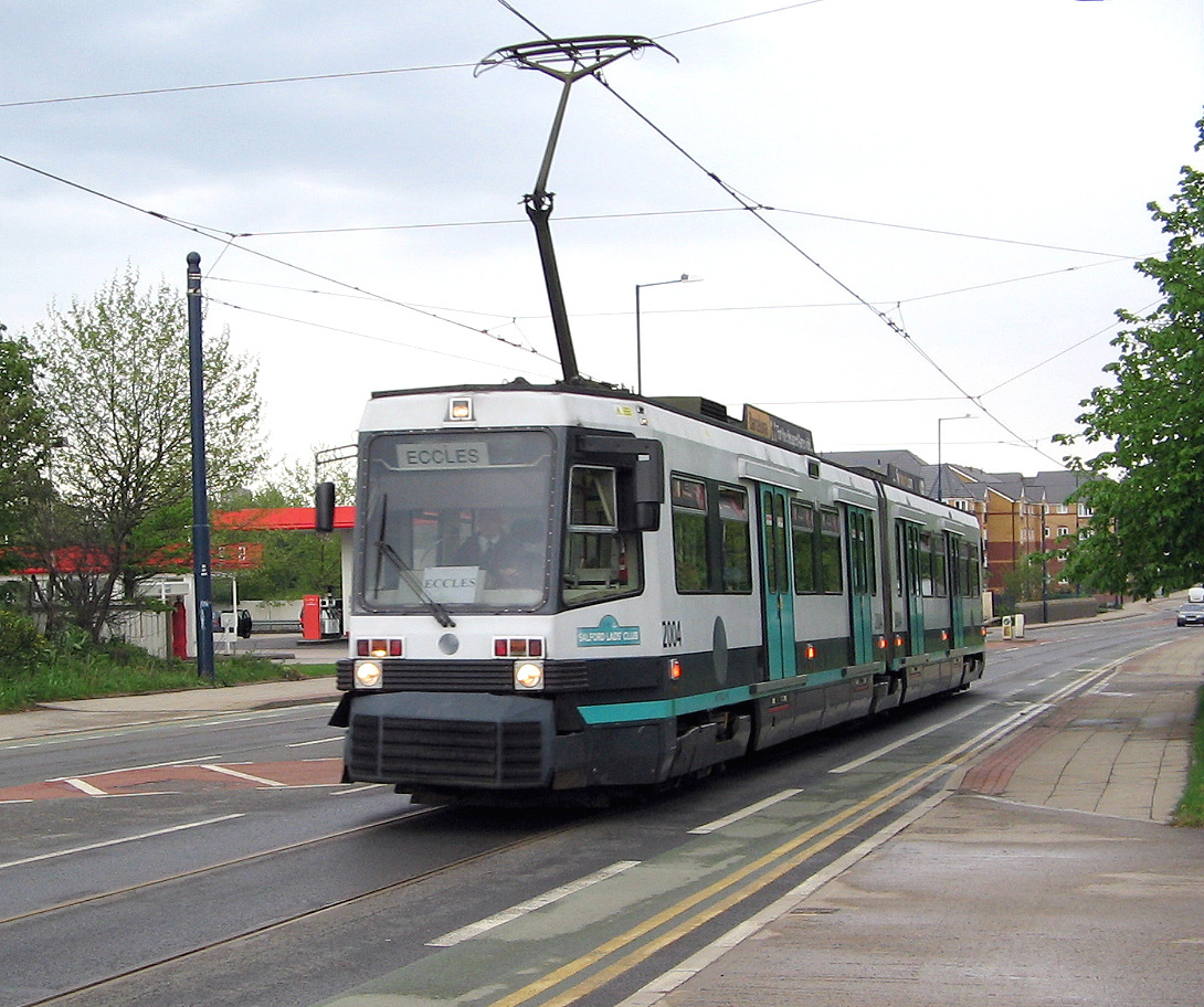 A Manchester Metrolink tram running along streets in Eccles near Manchester. Photo by G-Man May 2005